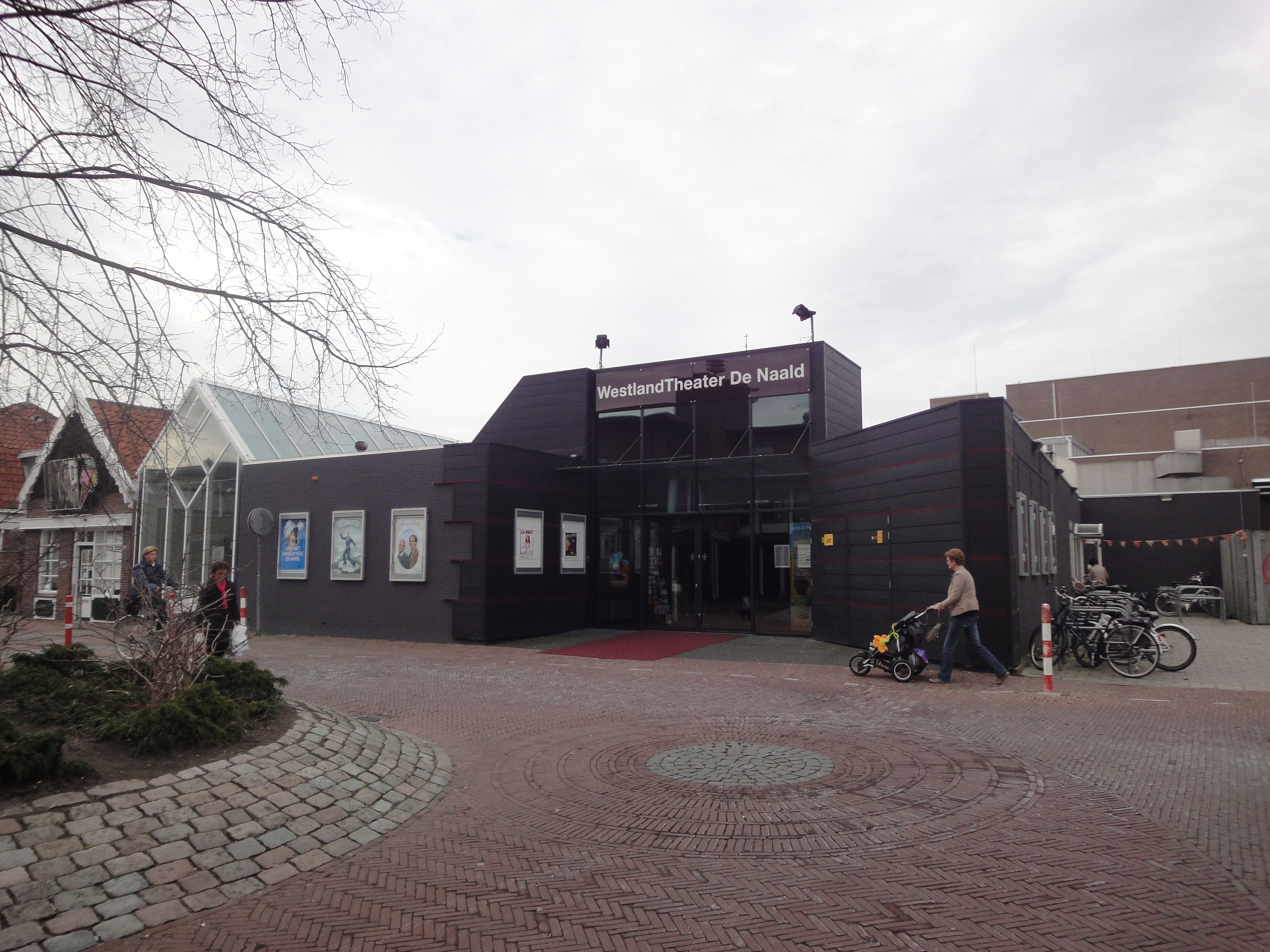 WestlandTheater De Naald